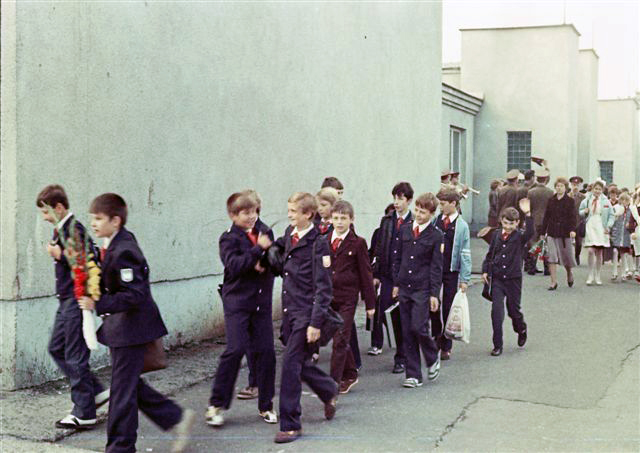 Soviet pupils in Milovice